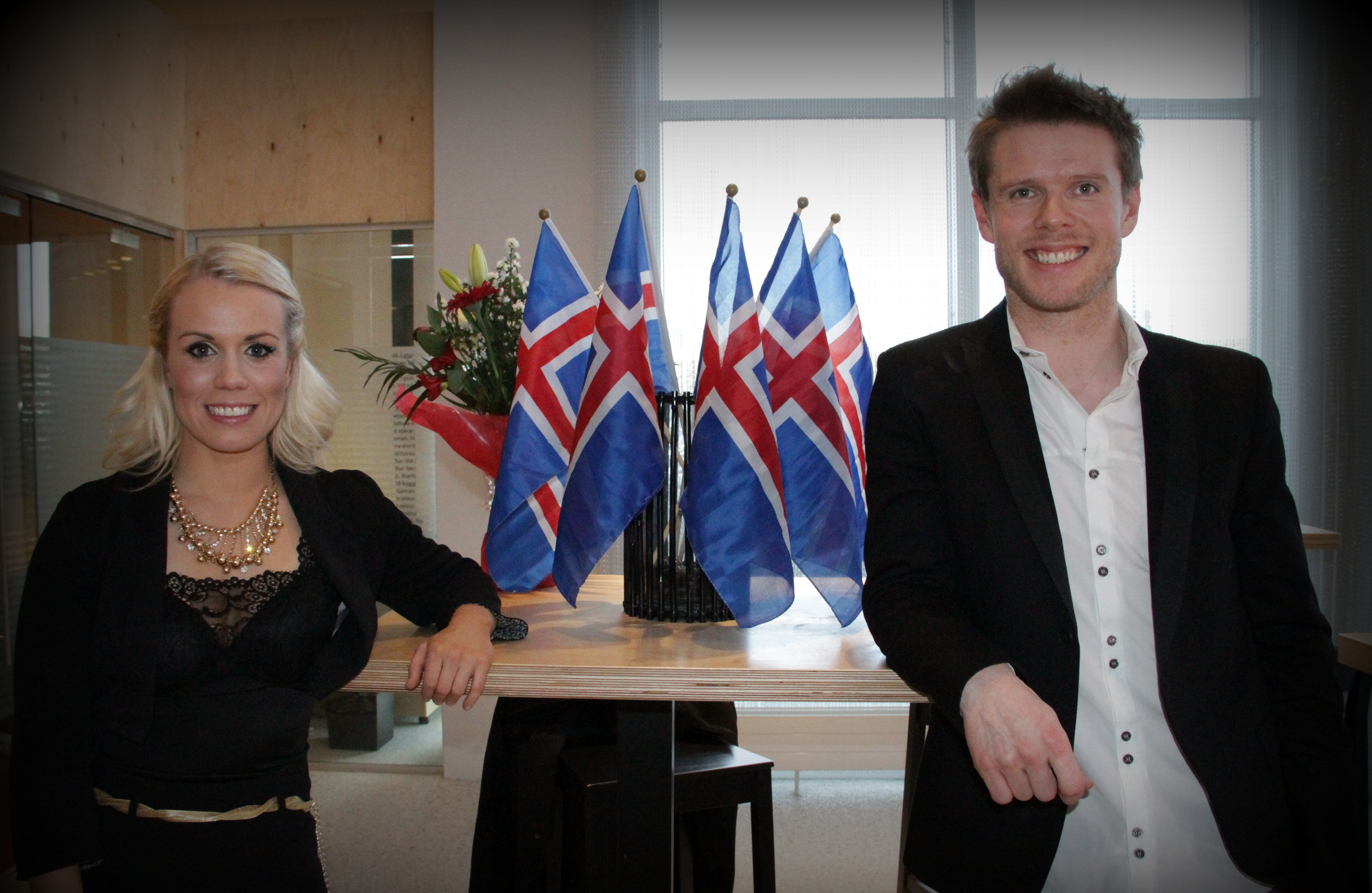 Greta Salomé & Jónsi will compete for Iceland in the Eurovision Song Contest 2012.